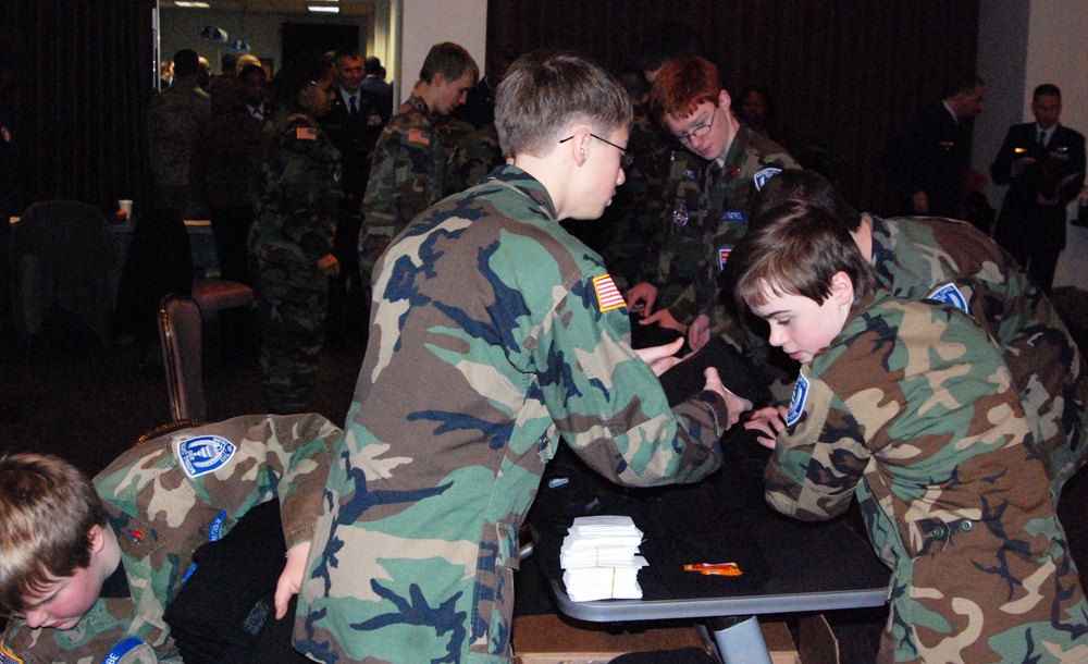 National Capital Region Civil Air Patrol cadets prepare to hand out cold weather gear to Airmen from Joint Base Andrews in preparation for the 57th Presidential Inauguration Jan. 21, 2013. (U.S. Air Force photo/Aletha Frost)